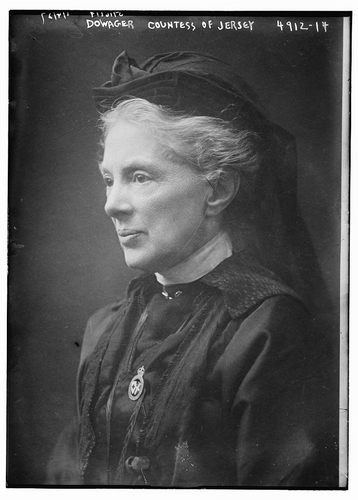 Margaret Elizabeth Leigh circa 1919